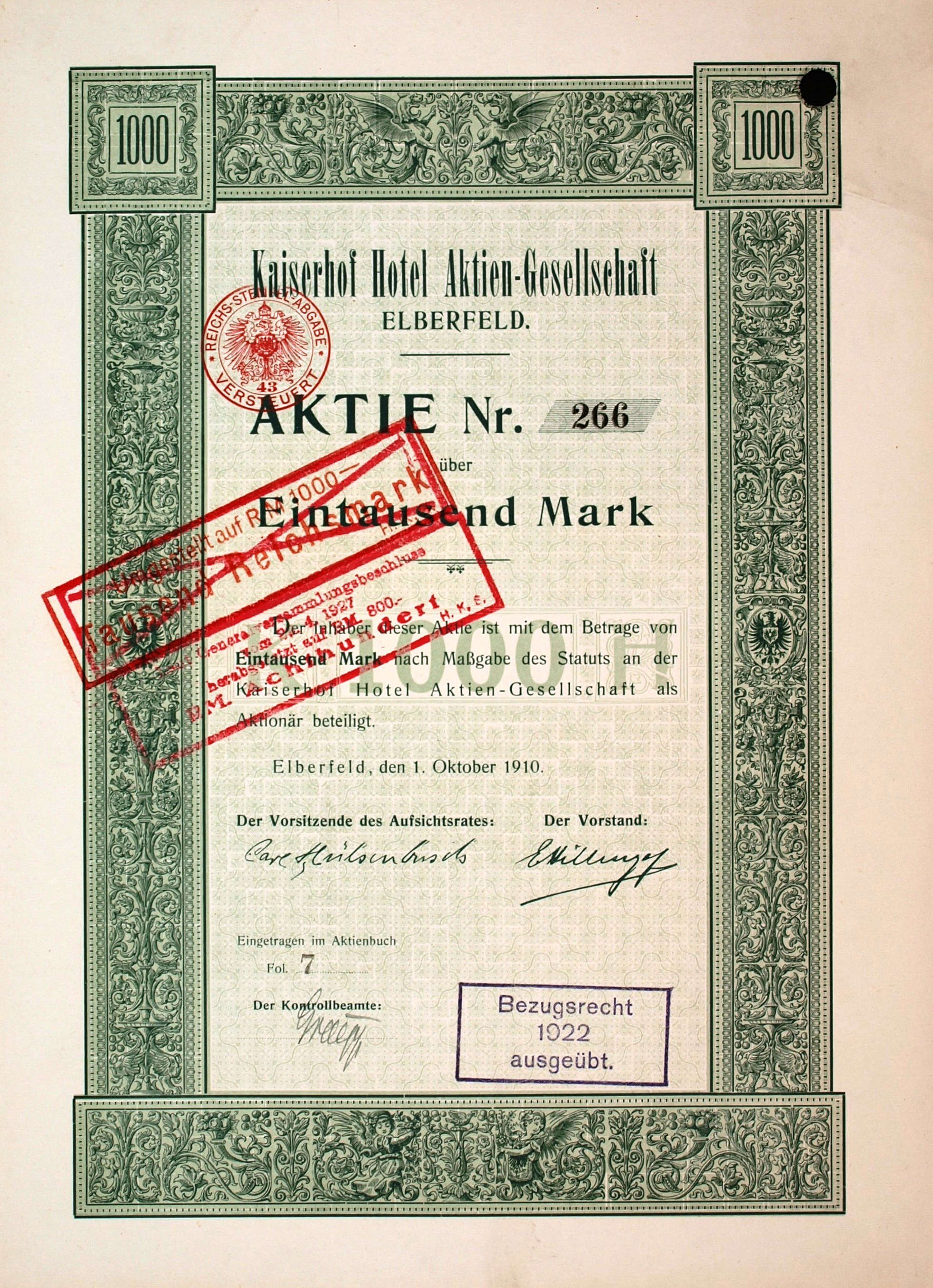 Share of the Kaiserhof Hotel AG, issued 1. October 1910